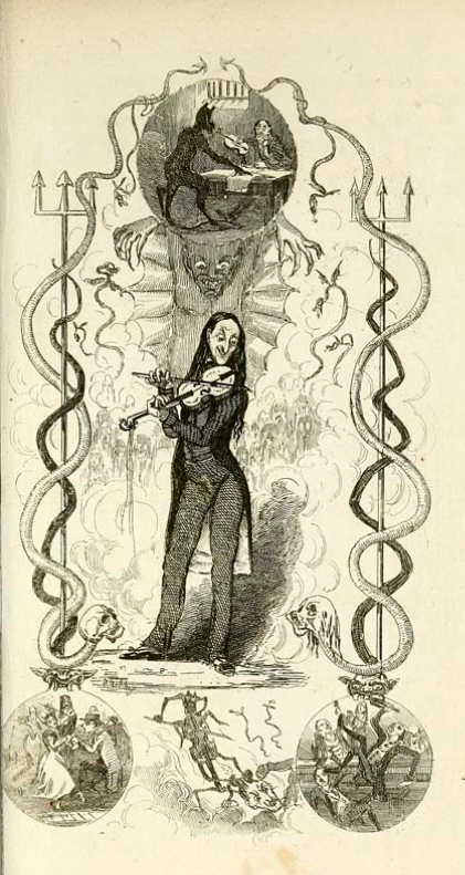 Paganini, deal with the devil.